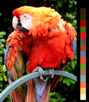 Sample image of simulated Commodore Amiga 4096-color (HAM) screen